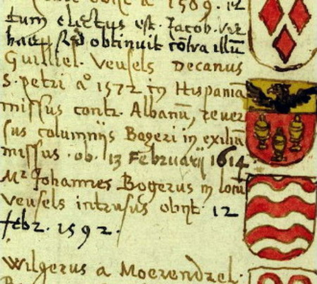 List of deacons of Saint Peter's in Utrecht, mentioning Willem Veusels, who in 1580 was forced to step down because Johannes Boogers (following entry in the list) denounced him. Drawings of coats of arms and writing by Aernout van Buchel (1565-1641) in Monumenta passim in templis ac monasteriis Trajectinae urbis atque agri inventa (ca. 1600).